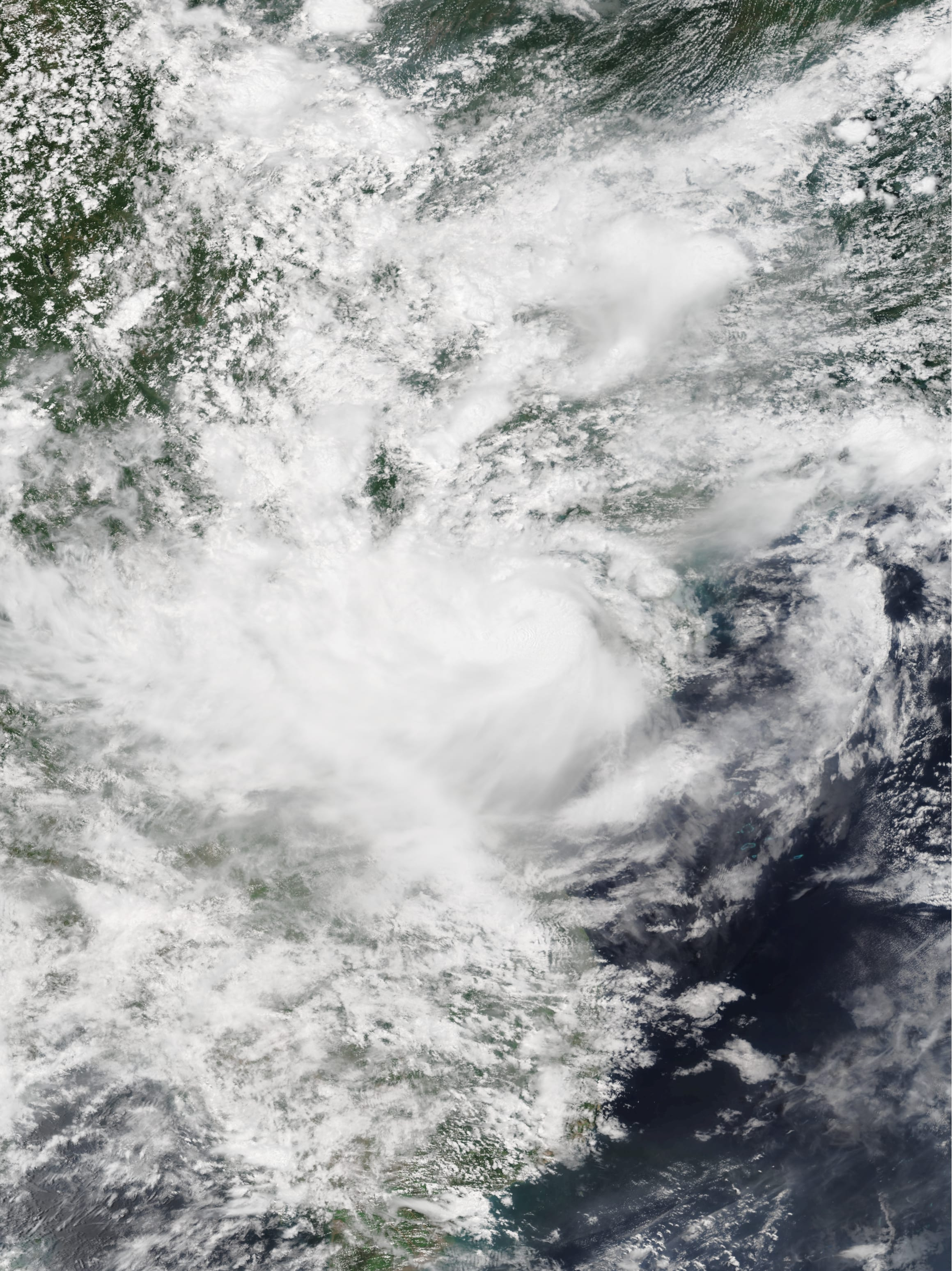 Severe Tropical Storm Bebinca (20W) during peak intensity on August 16, 2018